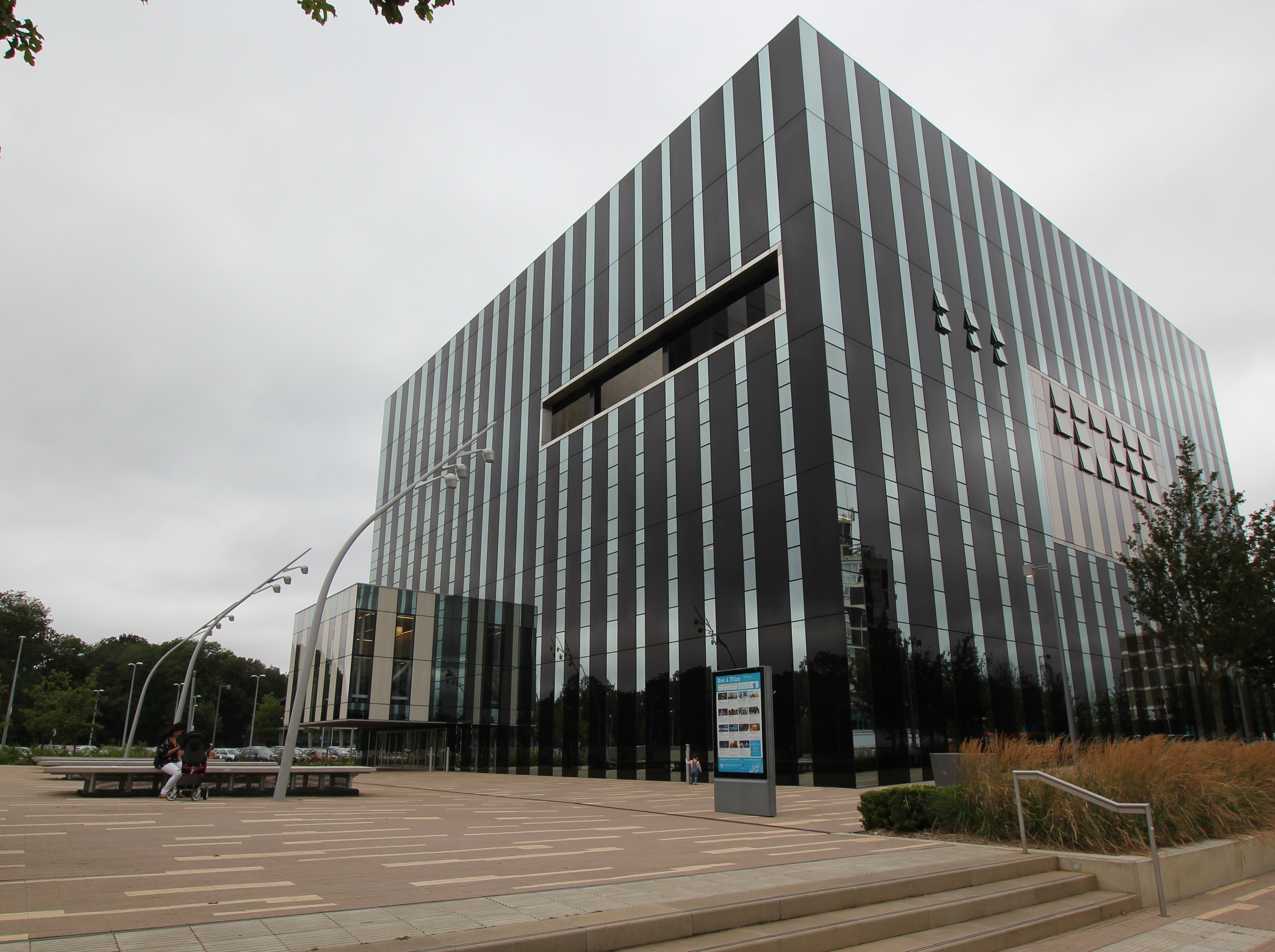 Cube building Corby, England has a theatre, Council Chanber and other facilities